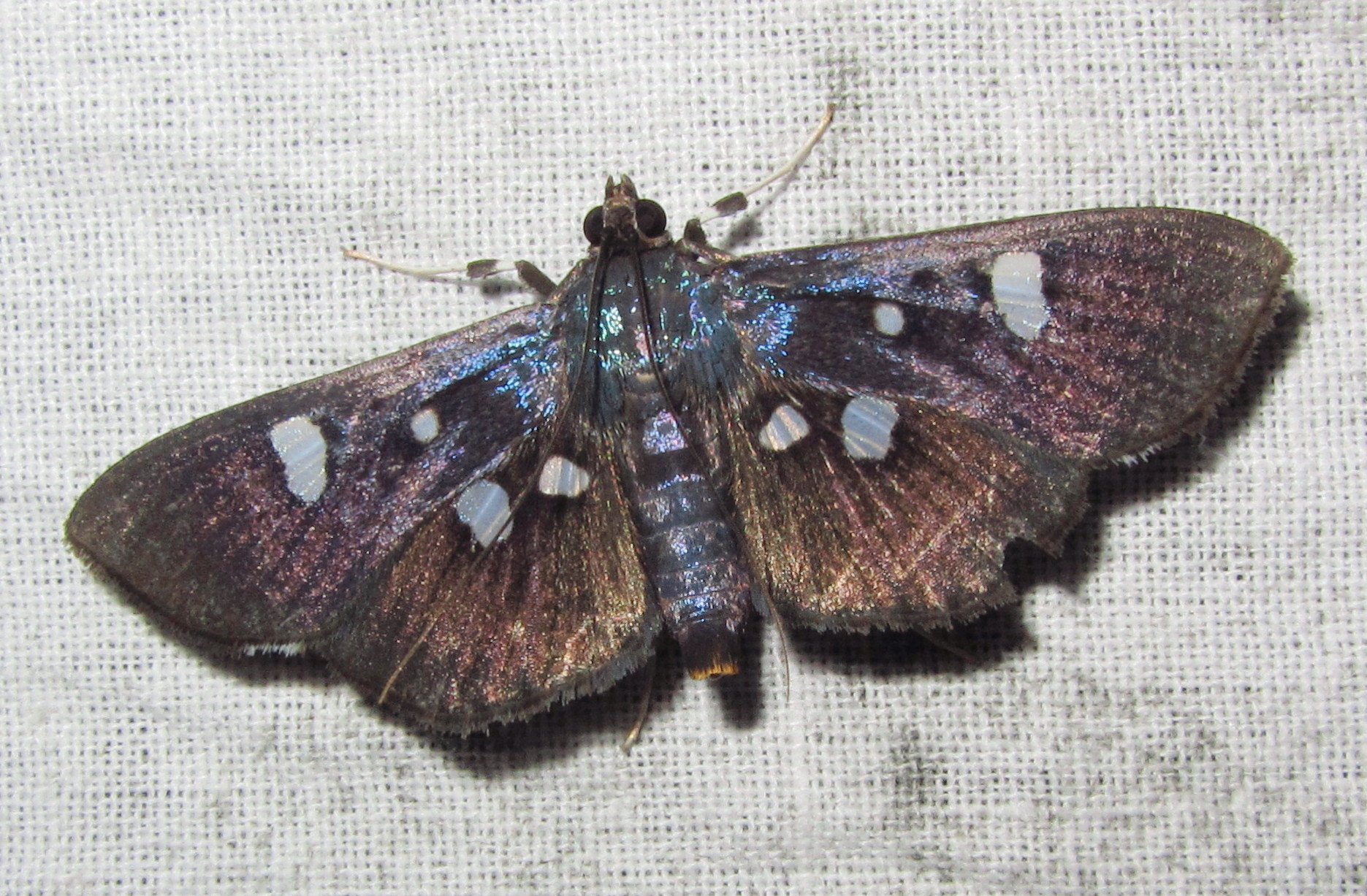 Pakke Jungle Camp, Sejjosa near Pakke Tiger Reserve, Arunachal Pradesh, India, 10th April 2012